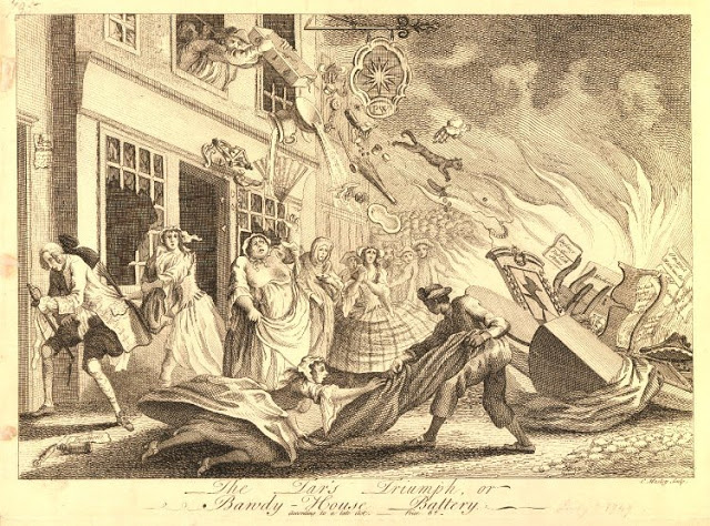 The Tar's Triumph, or Bawdy House Battery, 1749